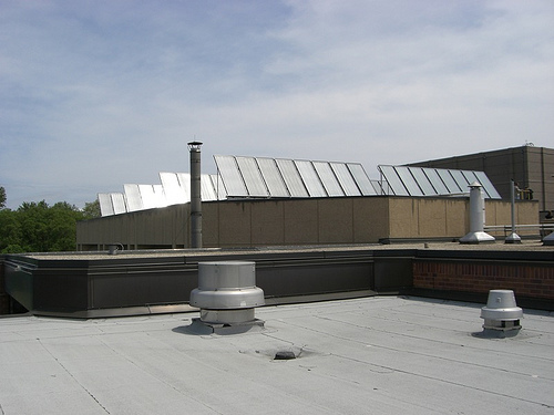 Solar Panel